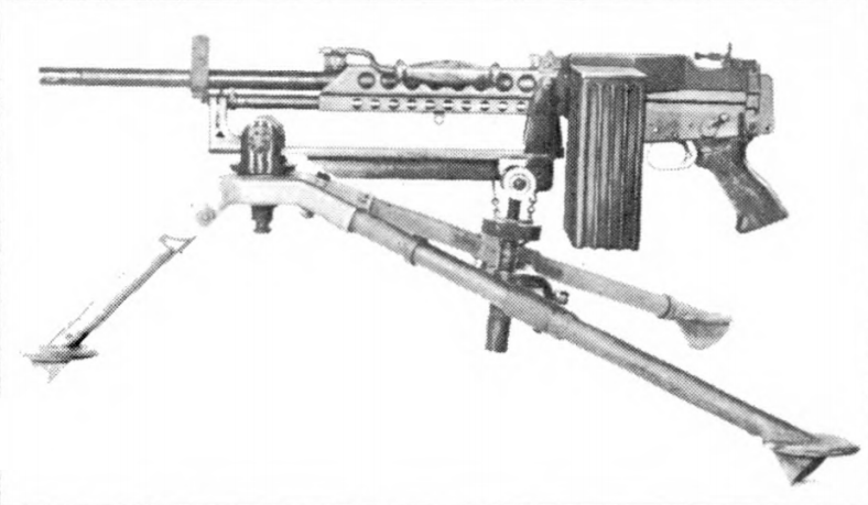 The Stoner 63 Weapon System in the "medium machinegun" configuration